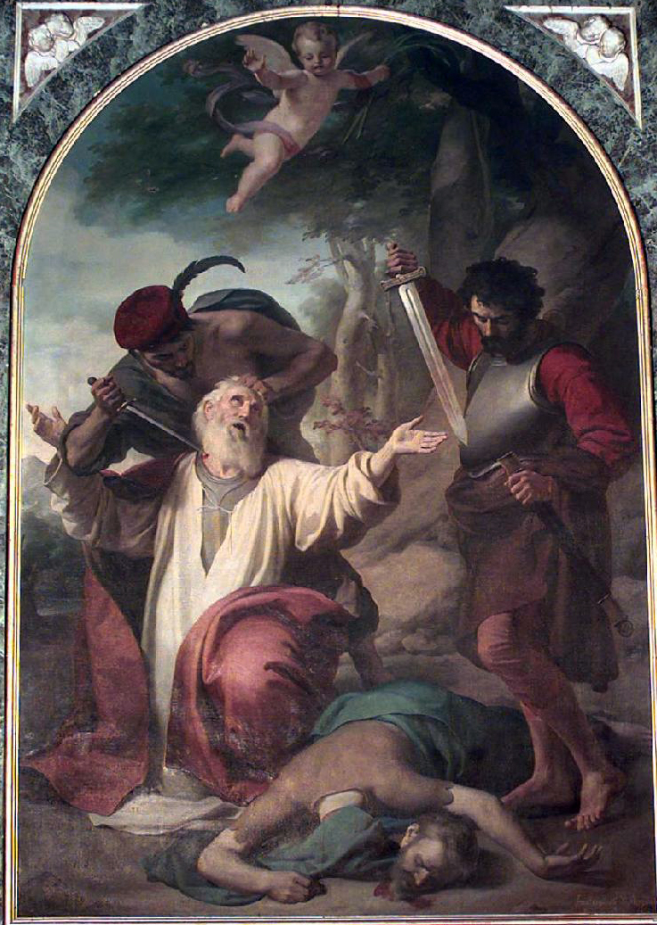 Saints Firmus and Rusticus